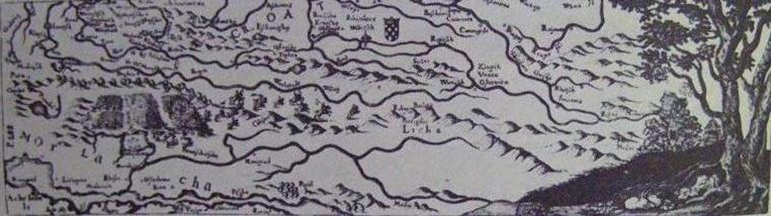 Péter Zrínyi defeat to the Ottomans in Croatia (October 16, 1663)